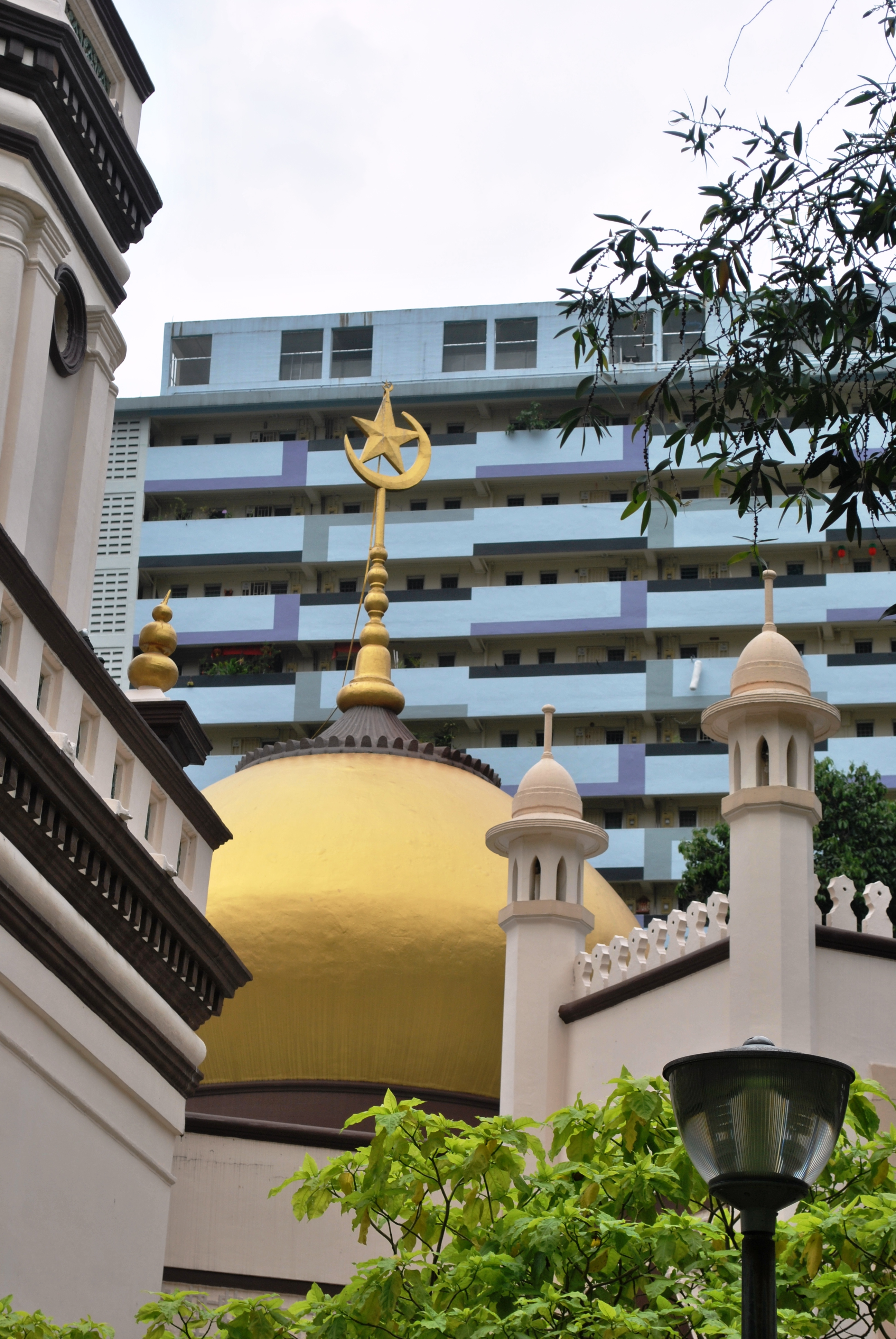 Masjid Hajjah Fatimah